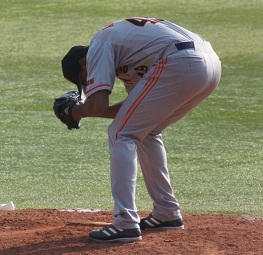 acosta kagami